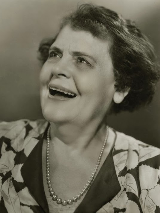 Studio publicity photograph of Marie Dressler. The full image, seen here, includes a stock number, the name of the studio, and the name of the subject - confirming that this was a promotional image. Such images were taken by a studio photographer, and then disseminated to the media and the public for the purpose of promoting their contract stars. Public domain explanation If the photograph was copyrighted, under the terms of the 1909 Copyright Act this copyright would have had to be renewed 28 years after publication. A search for copyright renewal records of 1968 ([1], [2]) 1969 ([3], [4]) and 1970 ([5],[6]) reveal no trace that this occurred. This was a common occurrence for studio publicity images, as explained by Eve Light Honthaner, in The Complete Film Production Handbook (Focal Press, 2001), p. 211: "Publicity photos (star headshots) have traditionally not been copyrighted. Since they are disseminated to the public, they are generally considered public domain, and therefore clearance by the studio that produced them is not necessary."